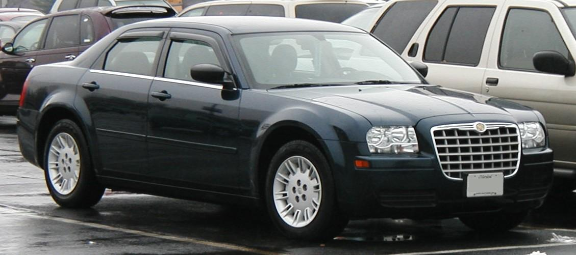 Chrysler 300 photographed in USA.